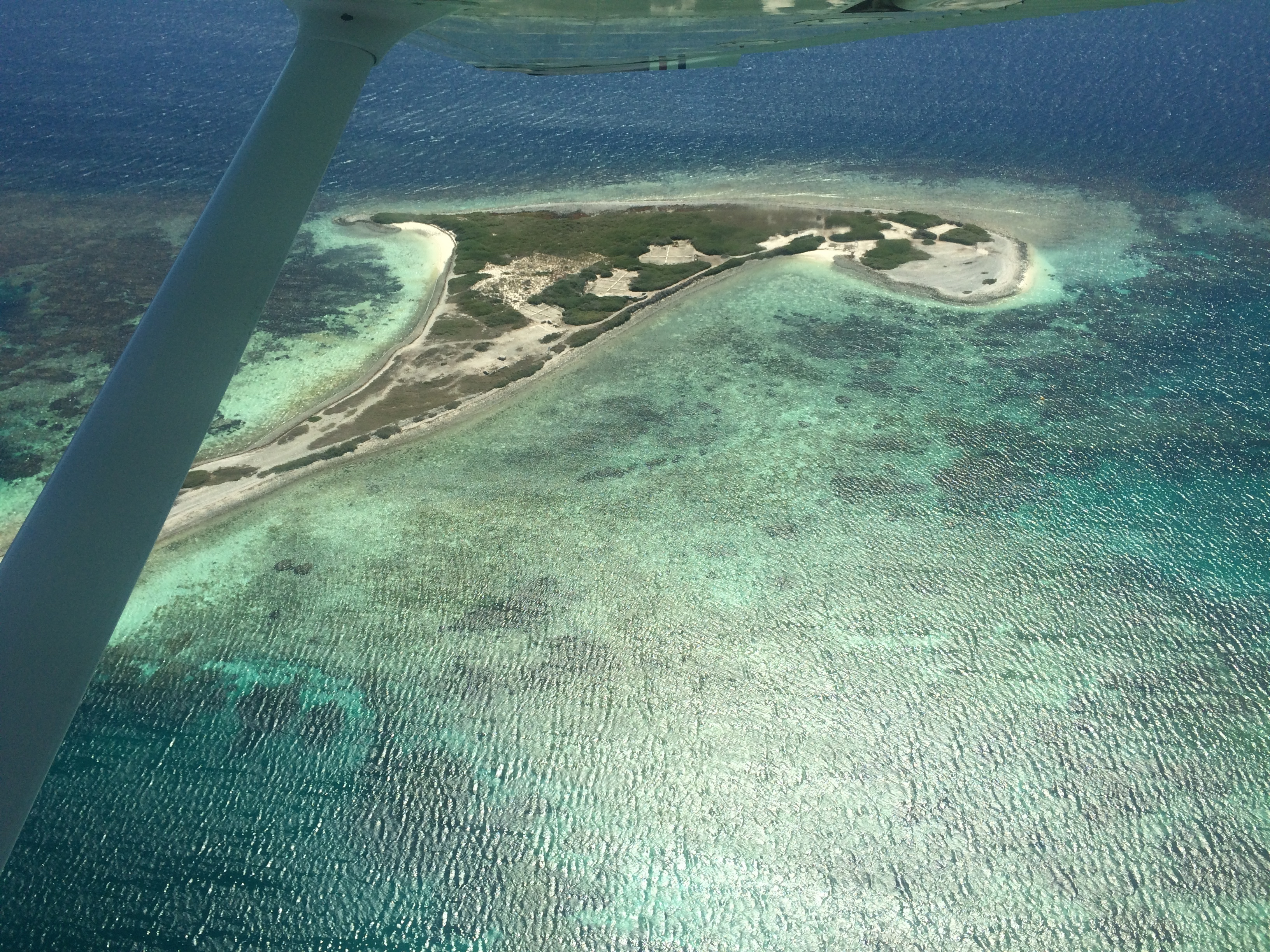 Beacon Island (Batavia's Graveyard), Abrolhos Islands, WA. Island where the survivors of the Batavia shipwreck stayed and where most of them were subsequently murdered.